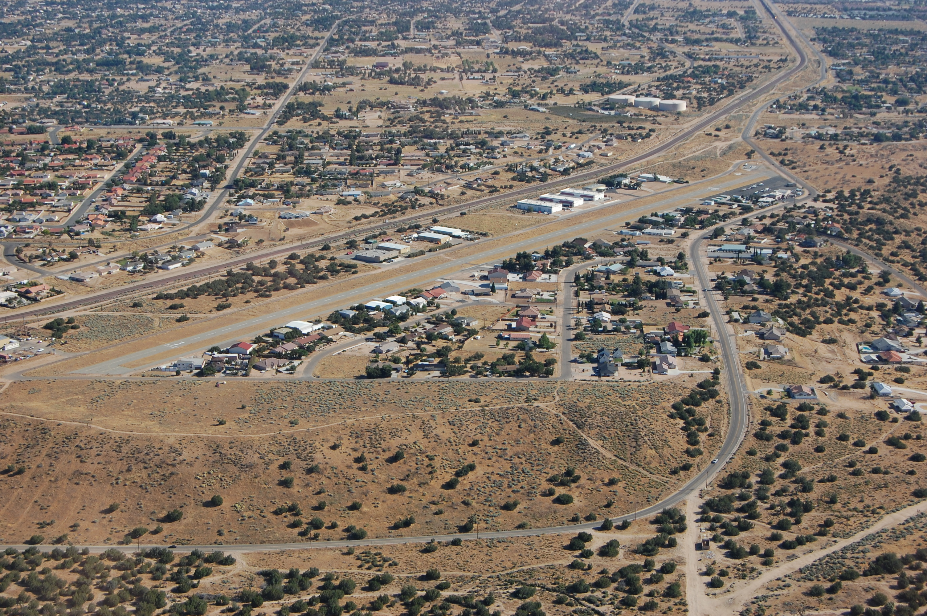 Hesperia Airport, L26 as seen turning right 45 to downwind.